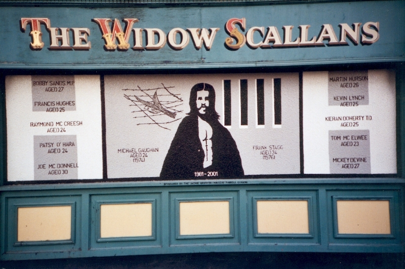 This is a mural representing Bobby Sands, an Irish national hero who died after undertaking a hunger strike (together with other IRA members held prisoners, whose names appear on the side) to protest against the condition they were suffering in the British prisons. The pub has been the stage of a bomb attack by the UVF (Ulster Volunteers) in 1994 during an IRA meeting and lead to the death of the bouncer (Martin Doherty, who was shot) who heroically managed to close the pub's door so that the bomb, although partially exploding, didn't cause any other victims. As of 2005, this pub was to be taken down to build an appartment block. It was/is located 300 mt. from Pearse Station going towards Ringsend on the right hand side of the road.The Widow Scallans